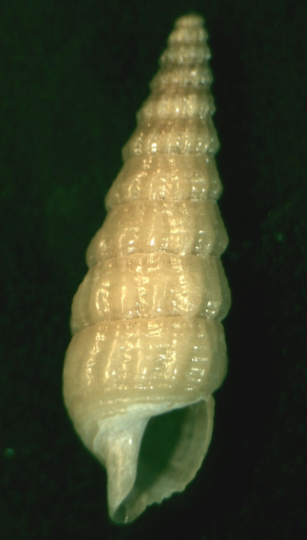 Ataxocerithium serotinum (A. Adams, 1855), a sea snail from the family Cerithiidae; South Australia